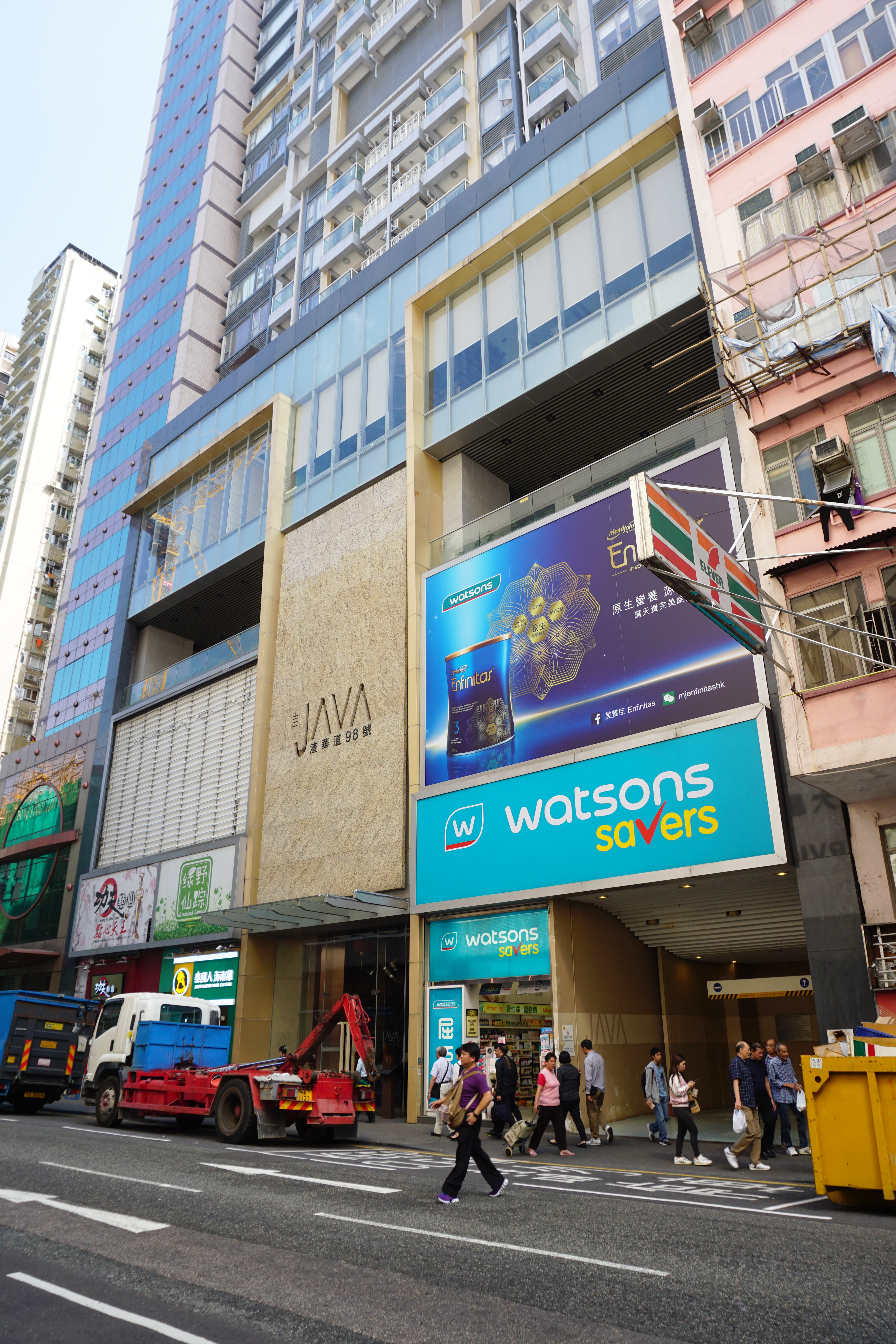 The Java in North Point, Hong Kong.